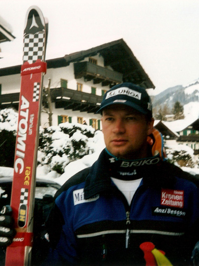 Austrian alpine skier Stephan Eberharter before the world cup races in Kitzbühel (Austria) on January 20th, 2000.